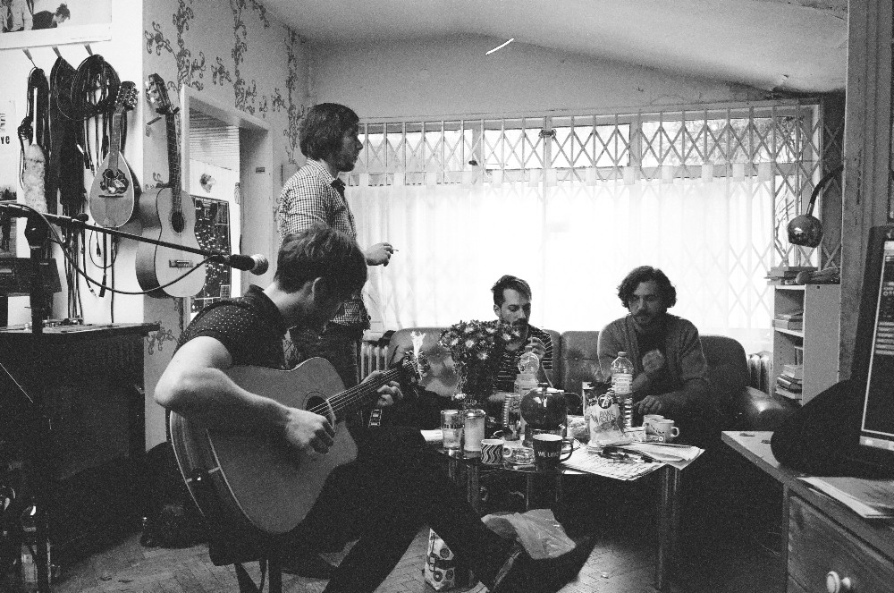 Neo Rodeo bei den Aufnahmen zu ihrem Debütalbum Mein junges und sorgloses Herz (Januar 2013)